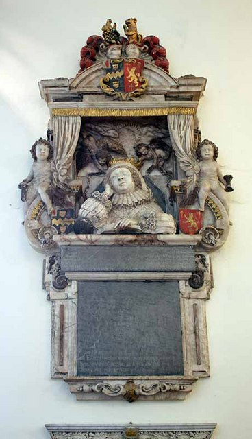 St Edmund, Abbess Roding, Essex - Wall monument